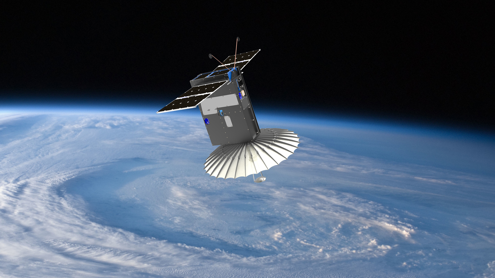 RainCube In Orbit